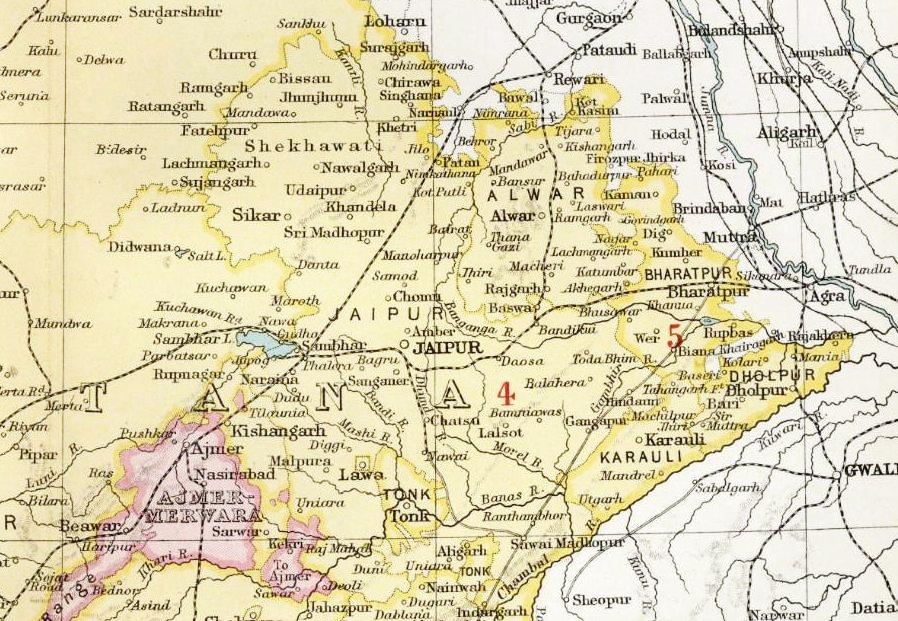 1909 Imperial Gazetteer of India Rajputana map section